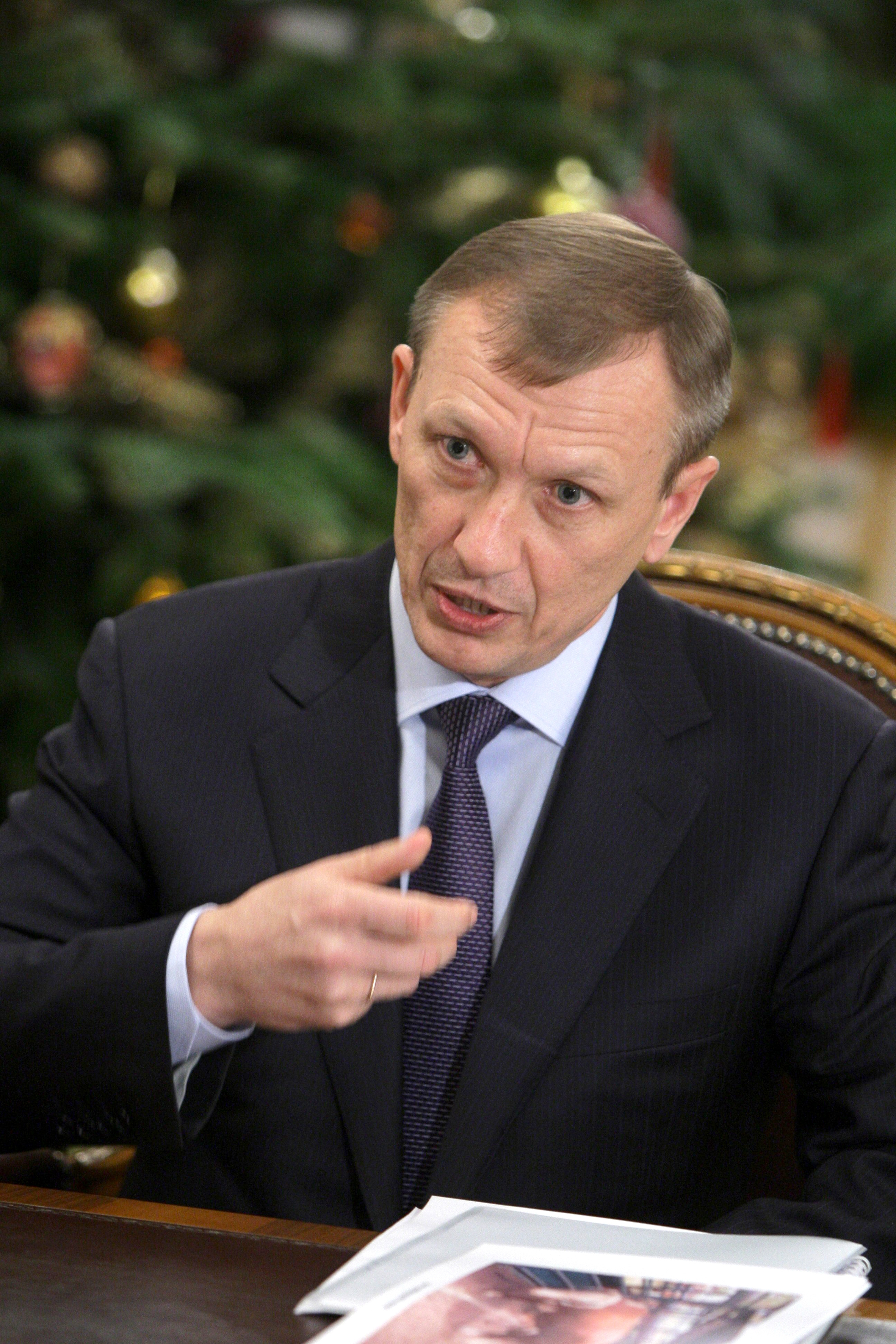 Governor of Bryansk Oblast Nikolay Denin at a meeting with Russian Prime Minister Vladimir Putin in Novo-Ogarevo, Moscow Oblast.